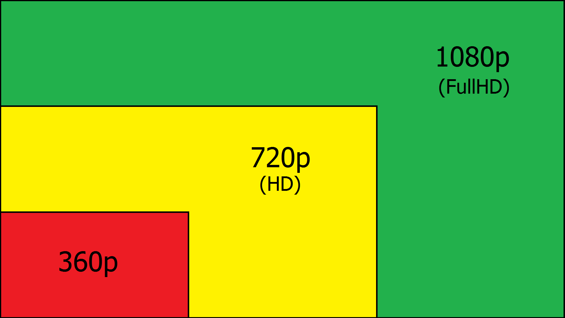 Resolutions (360p, 720p and 1080p) in 16:9